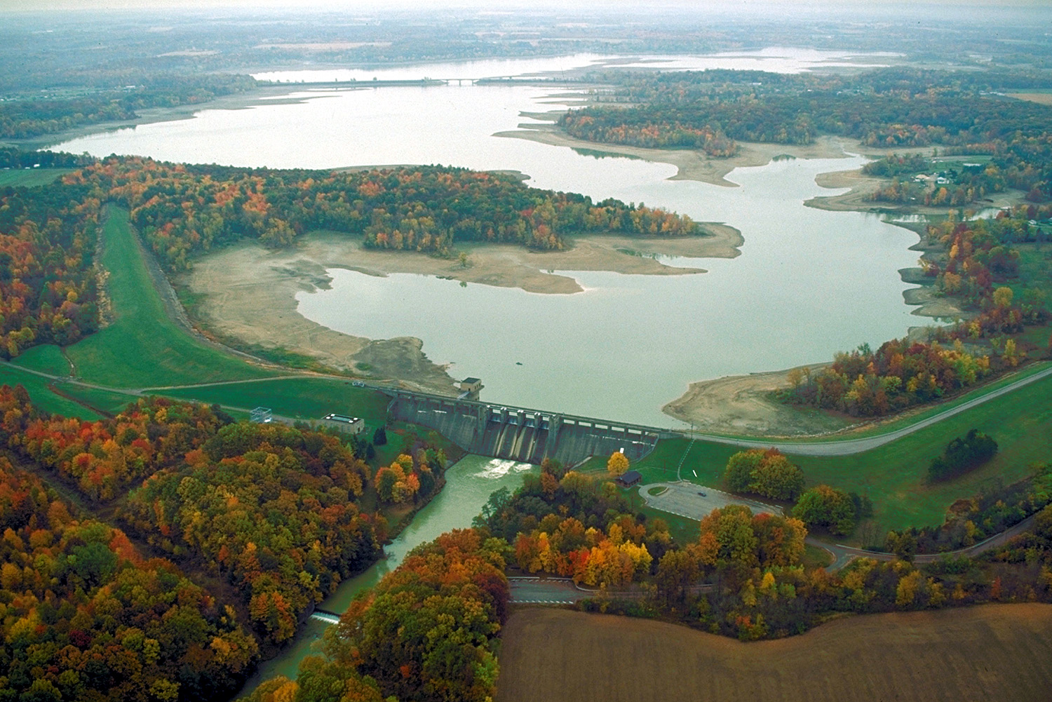 Berlin Lake and Dam on the Mahoning River in Mahoning and Portage Counties, Ohio, USA. The dam is located about 35 miles (60 km) southwest of Warren, Ohio. The dam was constructed by the U.S. Army Corps of Engineers for flood control on the Mahoning River.